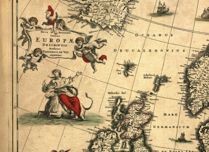 A map made by Fredericus de Wit in the second half of the seventeenth century that shows the mythological Europa as the personification of the continent. Mappe monde & Continents Nova et accuratatotius Europae descriptio, Amstelrodami. Etch on cupper, 48-57,5 cm